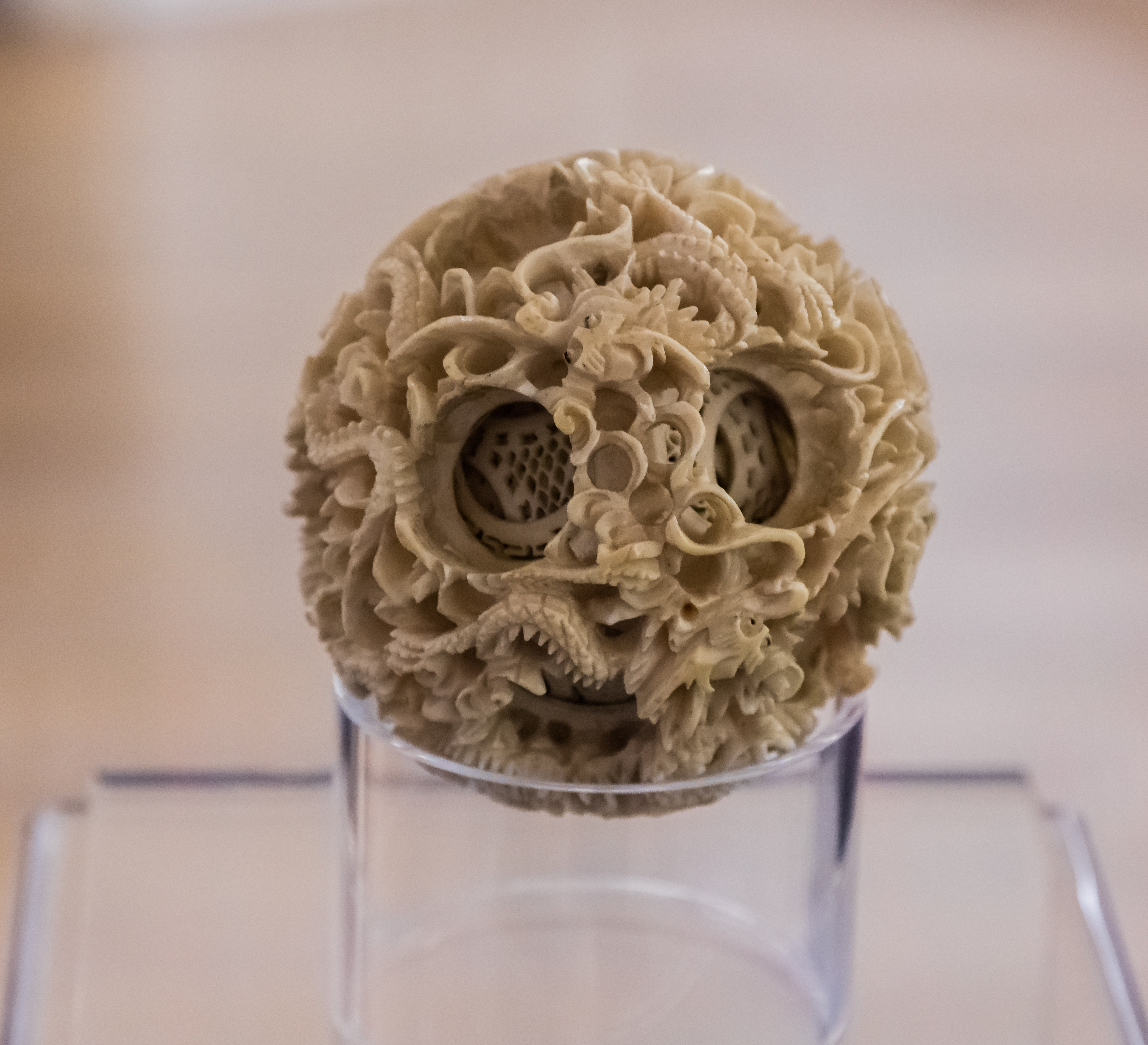 Bola de Cantón, Museo Soumaya, Ciudad de México, México